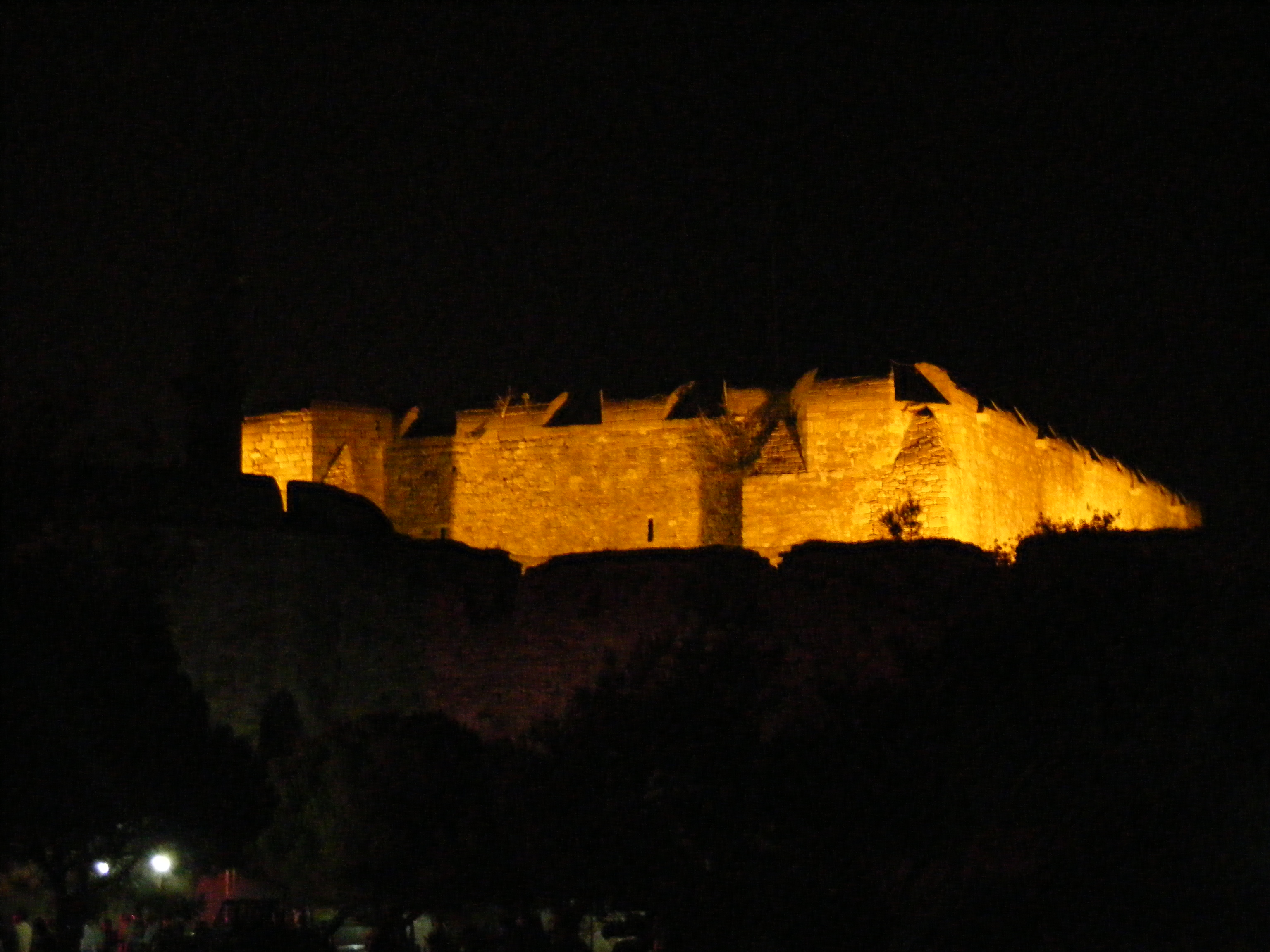 Canakkale fortress at night.